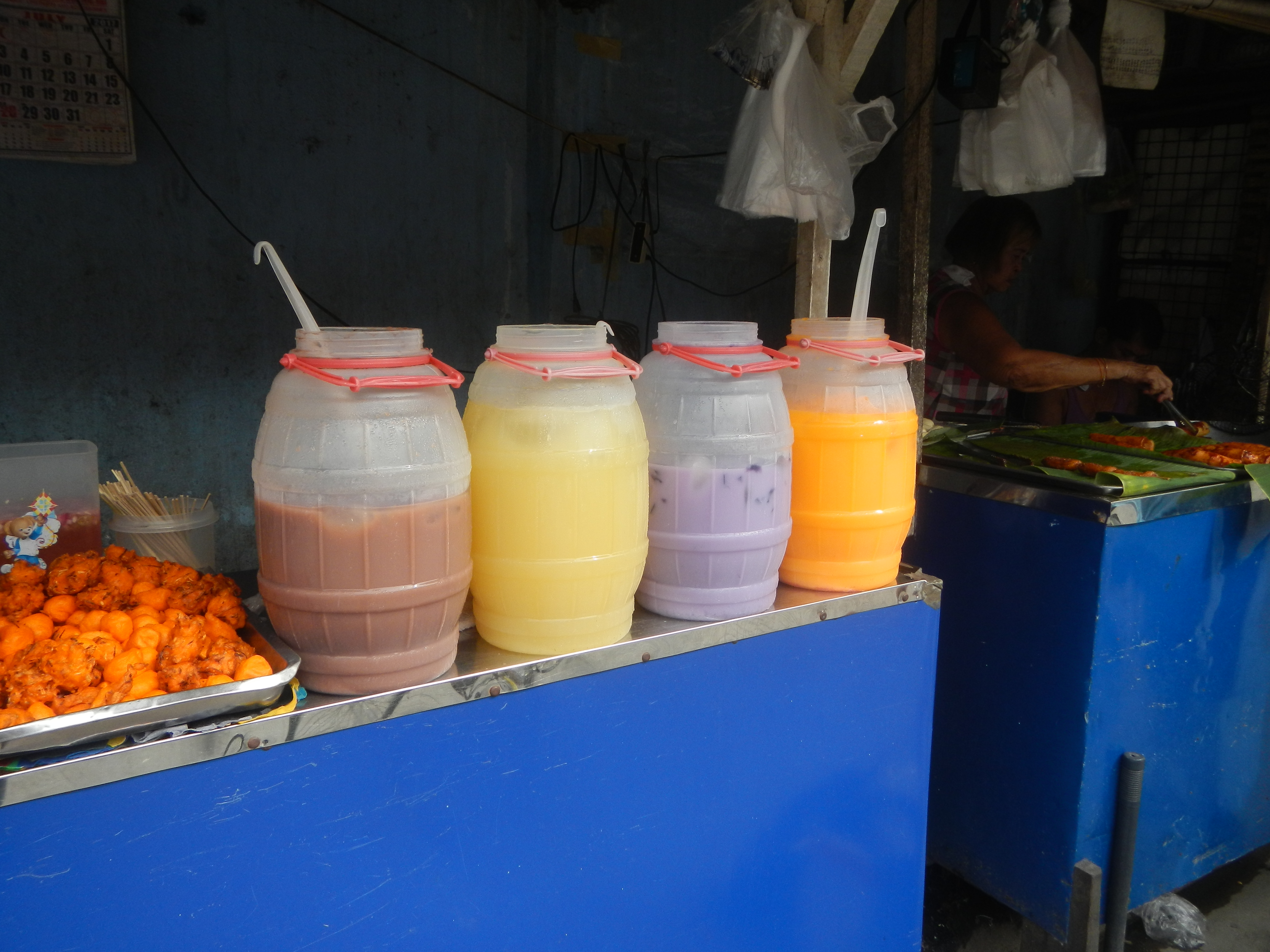 M. B. Asistio, Sr. High School - Unit I Malabon City and Caloocan City Boundary signs in Longos and Barangay 14 Rehabilitation of Roads and Drainage Improvement - Langaray Street, Dagat-Dagatan Avenue to Pampano Street, Langaray Extension Street P 11.9 million P 12.543 million C-4 Road Dagat-Dagatan Avenue corner Sapsap Street corner Maya-Maya Street corner Pampano Street Dagat-Dagatan Avenue corner Maya-Maya Street corner Lapu-Lapu Avenue Circumferential Road 4 from C-4 Road corner Dagat-Dagatan Avenue Footbridge (Malabon) 14°39'27"N 120°57'42"E Dagat-dagatan Avenue 14°39'9"N 120°57'54"E C-4 Road corner Dagat-Dagatan Avenue (Malabon) 14°39'27"N 120°57'42"E in the List of barangays of Metro Manila, Legislative districts of Caloocan District 2, Barangays of Caloocan Barangays 4 and 8, Sangandaan, Zone 1, District II, (Caloocan City South) and Barangays 9, 10, 11, 12, 13 and 14, Zone 2, Dagat-Dagatan District, Caloocan City South, Caloocan City in front of Barangay Longos Malabon 14°39'9"N 120°57'38"E beside Tonsuya, Malabon City Aquino Avenue, to Letre Road Malabon City of the Metro Manila Road Network of the Circumferential Road 4 (accessed from Epifanio de los Santos Avenue (EDSA, Balintawak-Monumento, Caloocan City section) of EDSA (road) Epifanio de los Santos Avenue Highway 54) Note: Judge Florentino Floro, the owner, to repeat, Donor Florentino Floro of all these photos hereby donate gratuitously, freely and unconditionally all these photos to and for Wikimedia Commons, exclusively, for public use of the public domain, and again without any condition whatsoever).